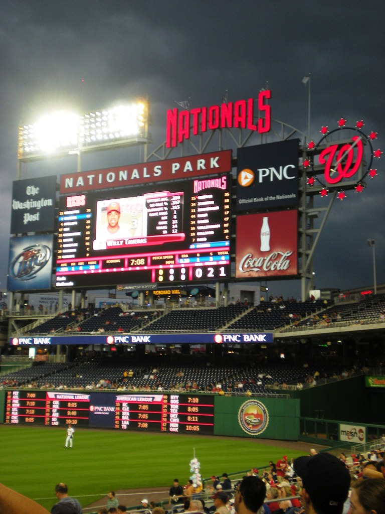 Nationals against the Red, 2009.